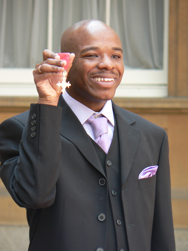 Stephen Wiltshire receives his MBE award at Buckingham Palace (Copyright: The Stephen Wiltshire Gallery